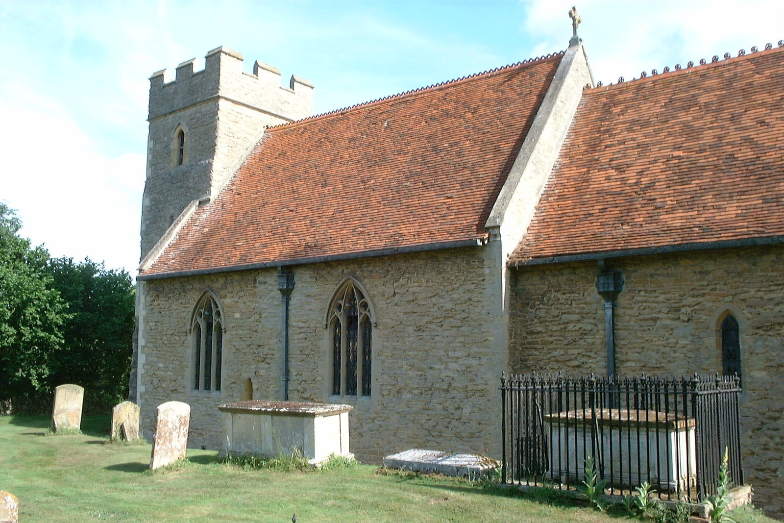 St Mary's parish church, Cold Brayfield, Buckinghamshire, seen from the southeast